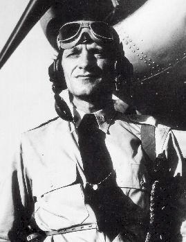 LCDR John C Waldron, namesake USS Waldron